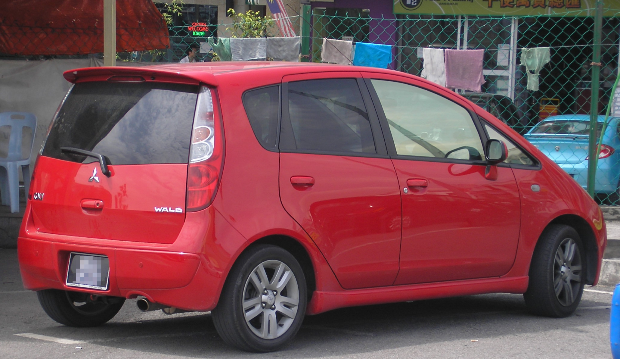 Rear quarter view of a WALD variant, 2003-based Mitsubishi Colt, in Serdang, Selangor, Malaysia.